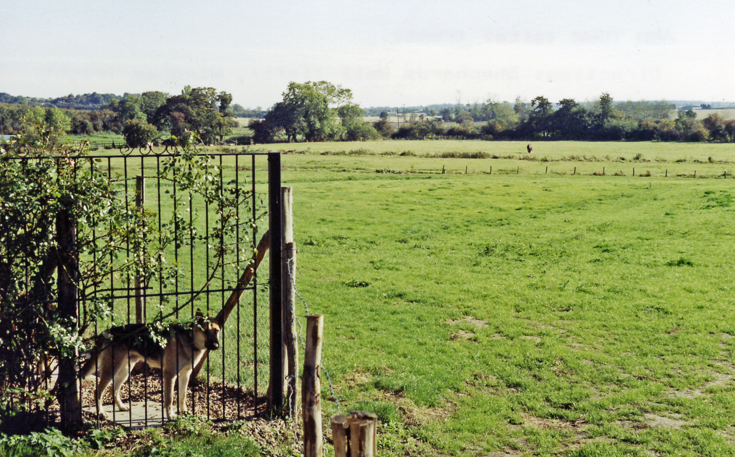 Site of Ash Town Halt on East Kent Light Railway, 1990. View southward across to the course of the East Kent line, which ran from Shepherdswell (left) to Wingham (right). Passenger services lasted only until 30/10/49, goods until 1/3/51. (The dog is never knew it).